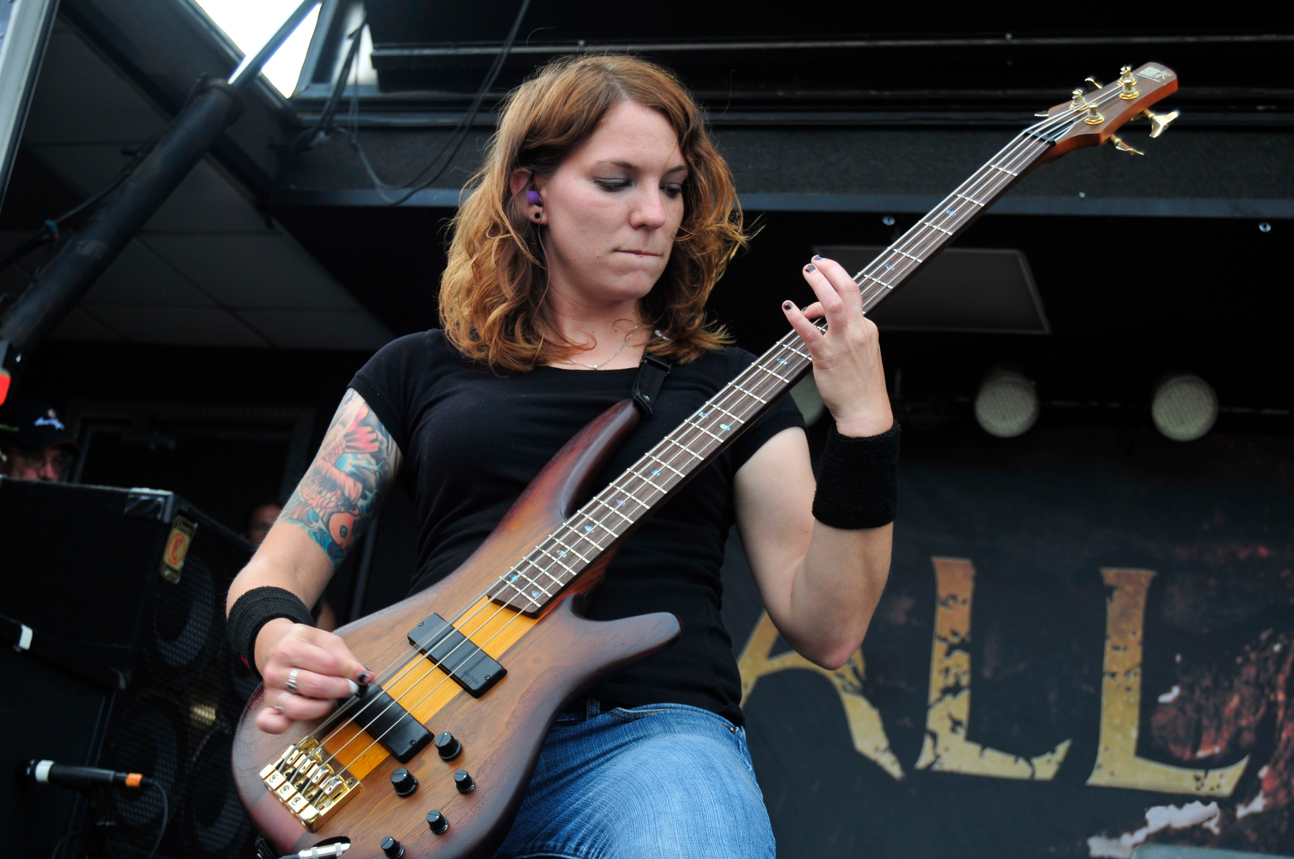 Bassist Jeanne Sagan of All That Remains